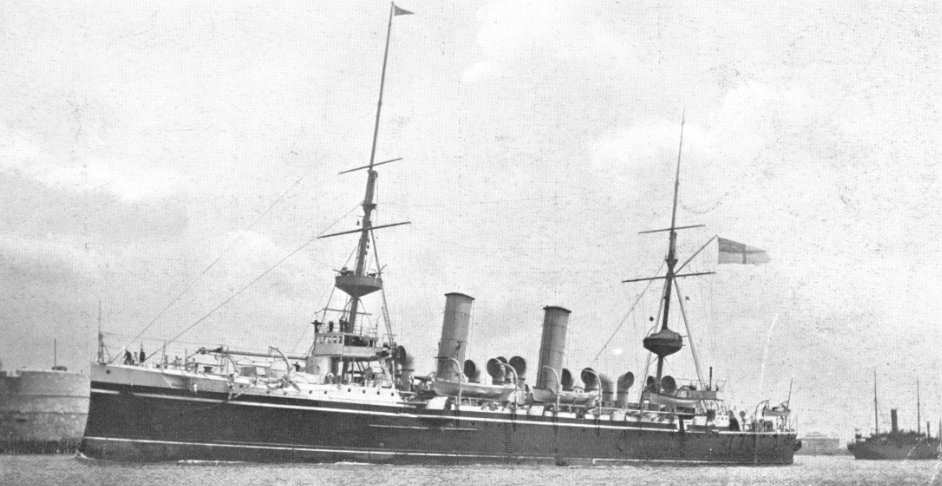 Photograph of British Eclipse class cruiser HMS Minerva.